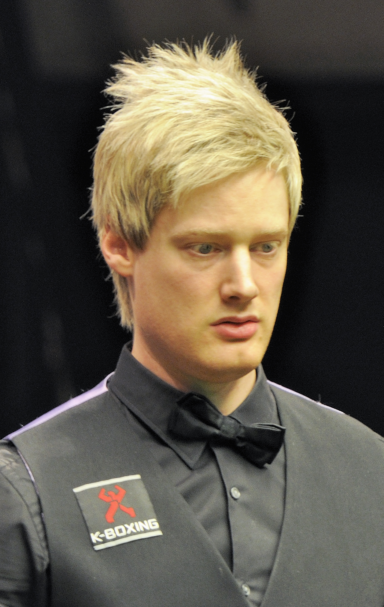 Picture taken in Berlin during the Snooker German Masters in 2014. Neil Robertson.